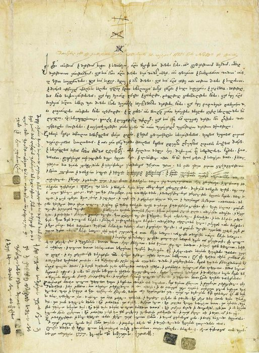 A charter issued by King Solomon I of Imereti regarding his donation of land to the Mghvime monastery, 1777